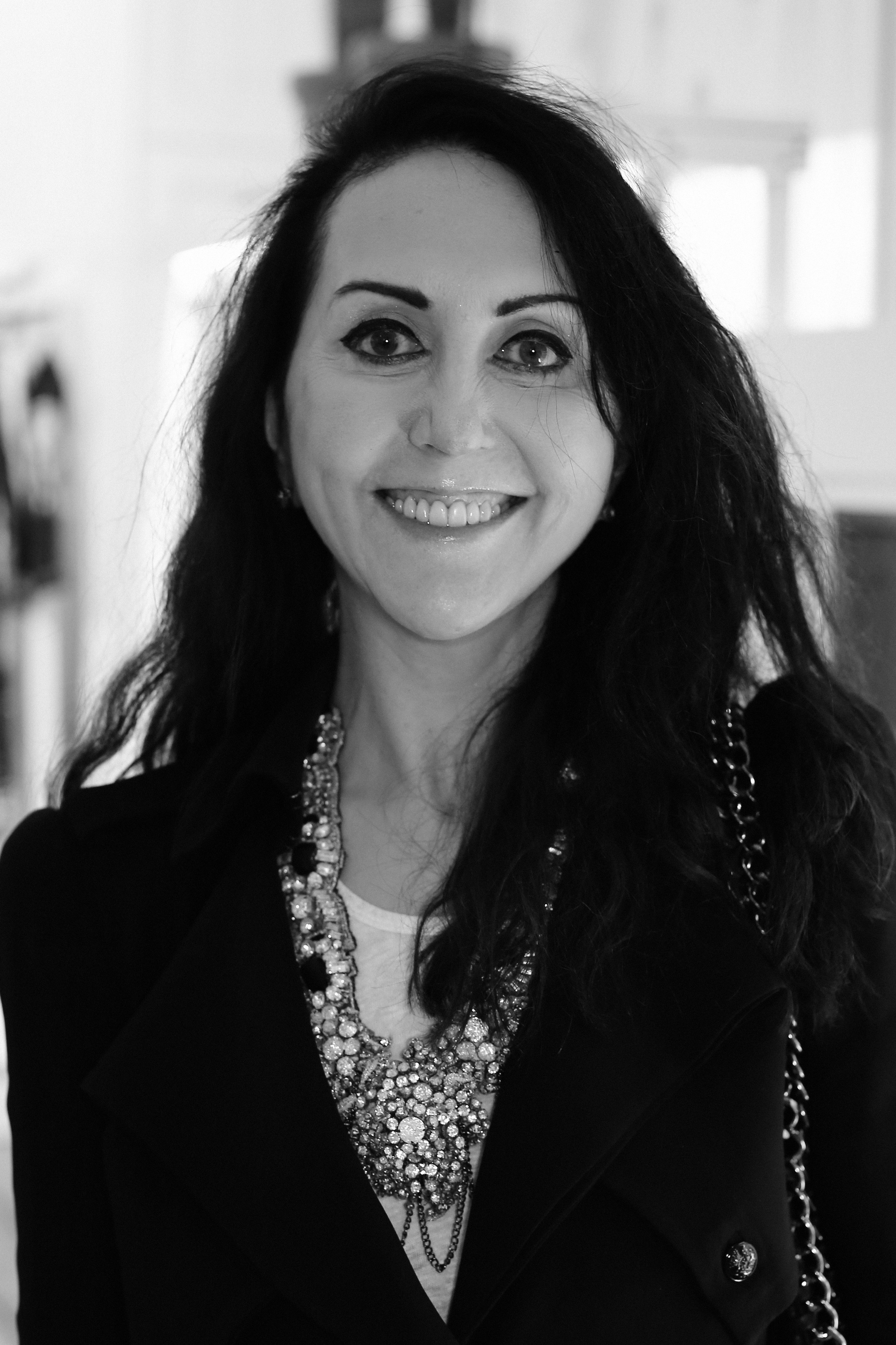 Elizabeth Ann "Liz" Jones (born 5 September 1958) is a British journalist. Photo by : Walterlan Papetti